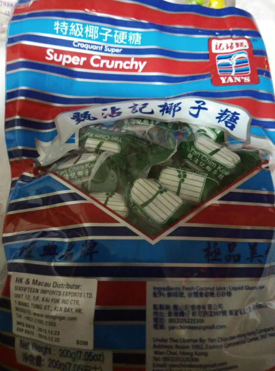 Traditional candy2